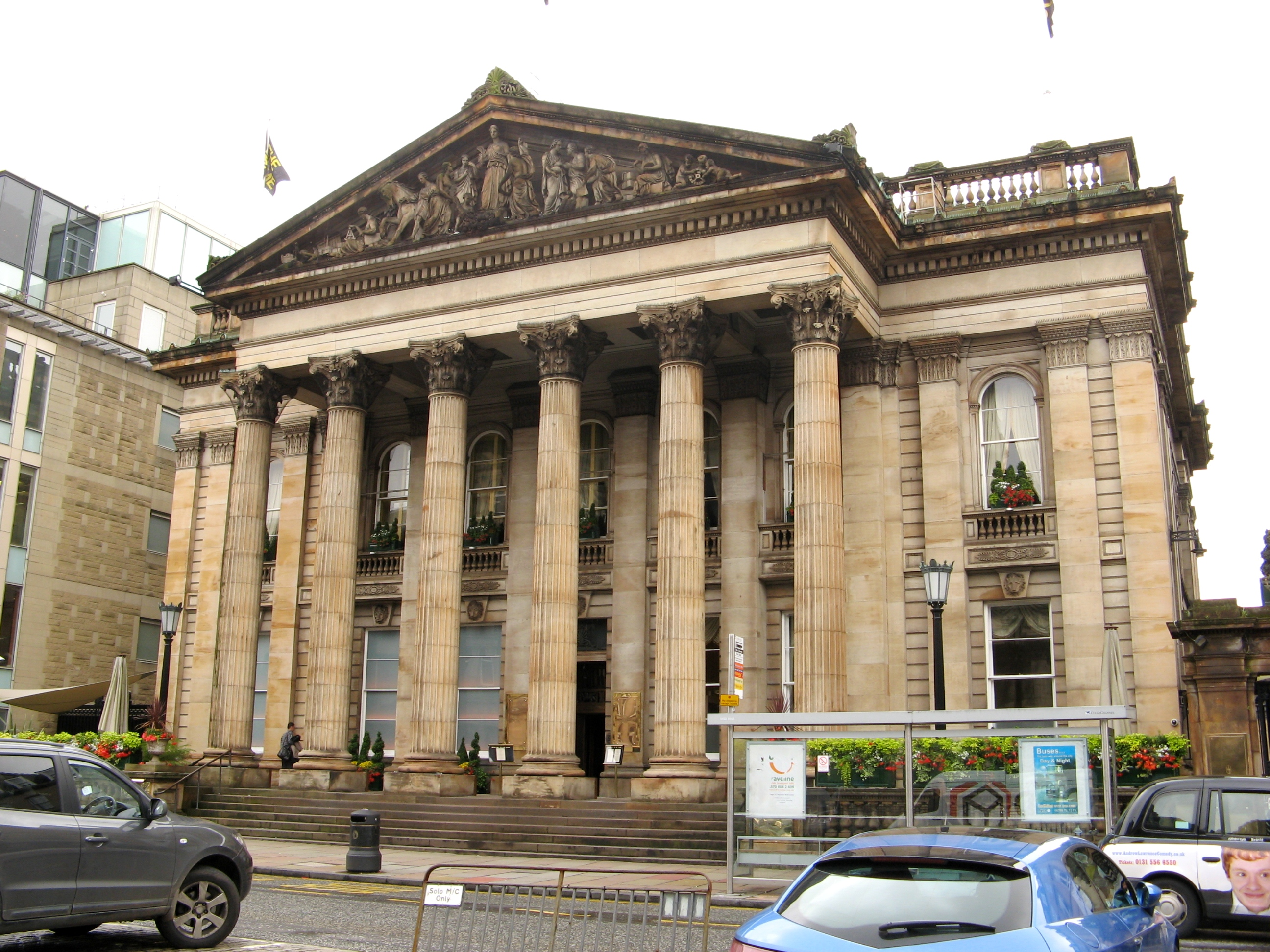 The Dome nightclub, formerly a Royal bank of Scotland, 14 George Street, Edinburgh, Scotland. Designed by David Rhind and built 1847